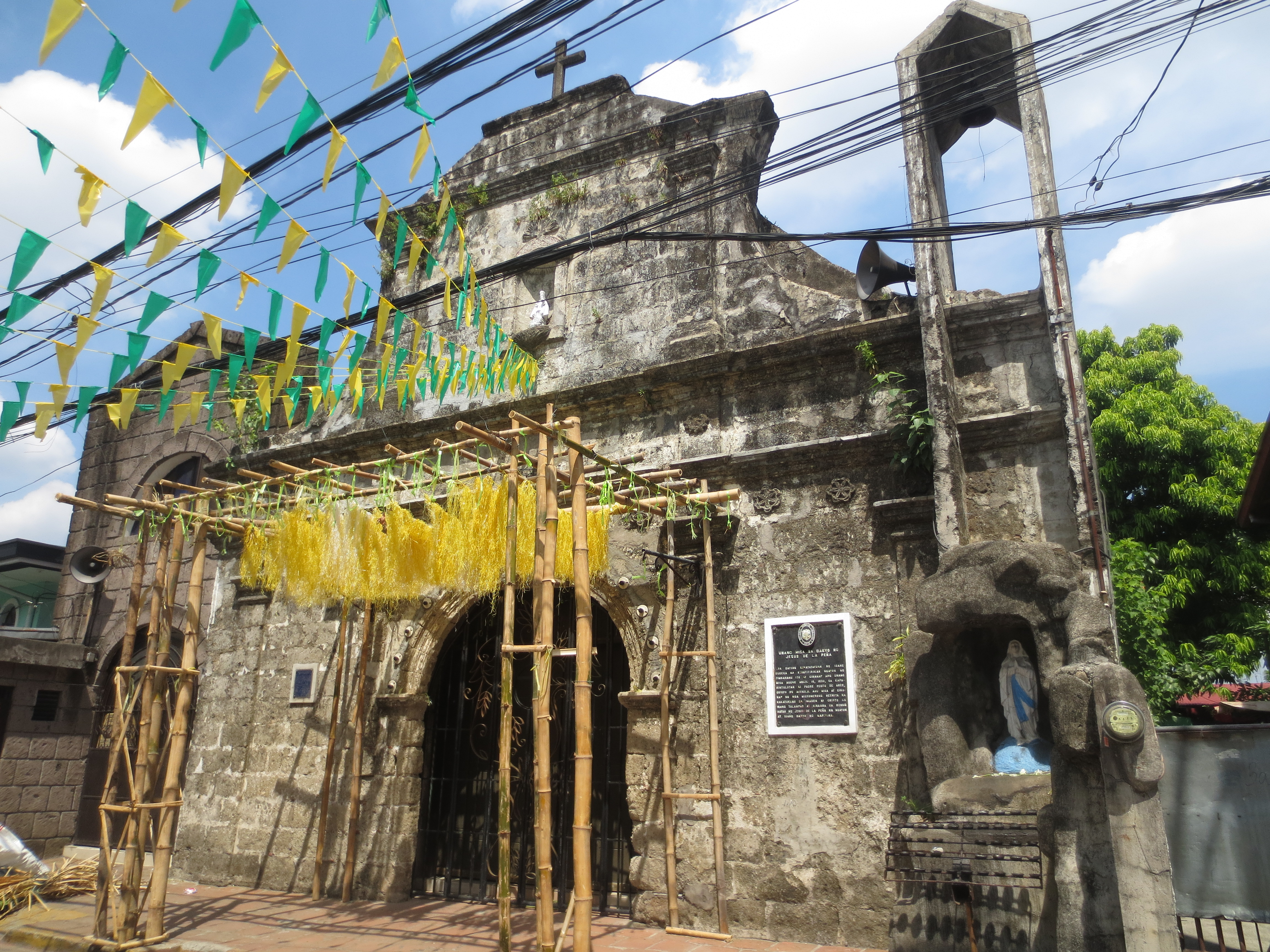 The oldest standing church in Marikina.